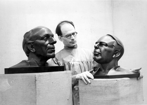 Photograph